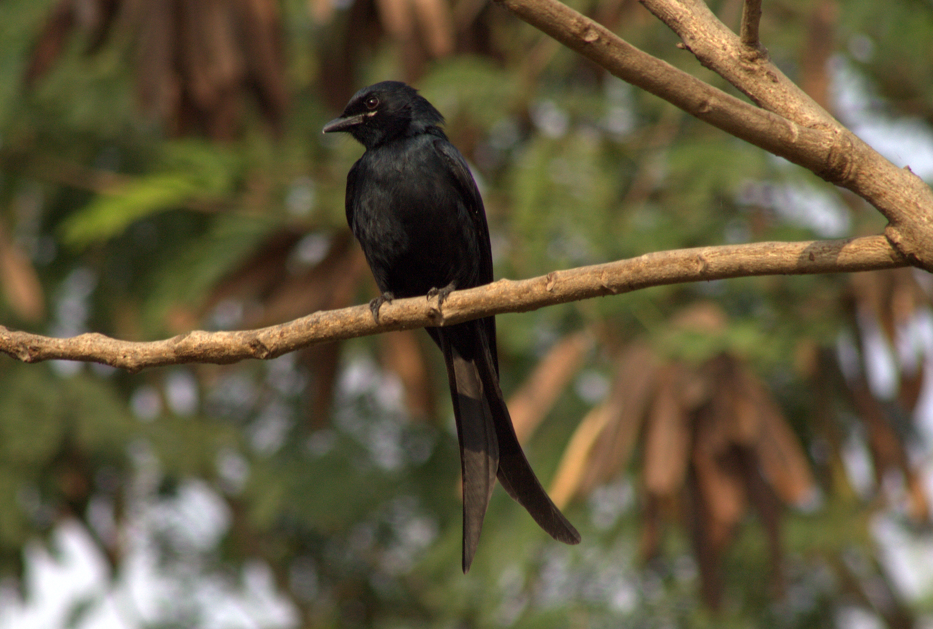 Black Drongo Dicrurus macrocercus by Dr. Raju Kasambe